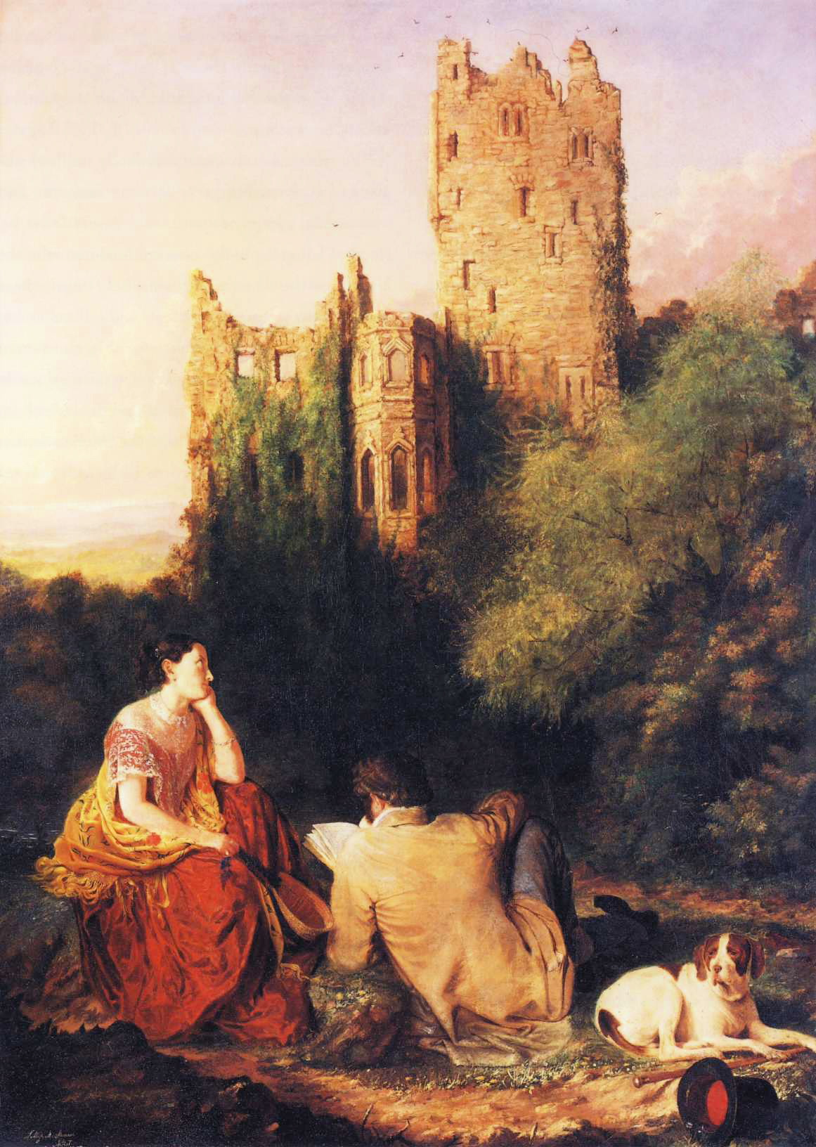 Dimensions and material of painting: Oil on canvas, 50-3/8 x 38 in